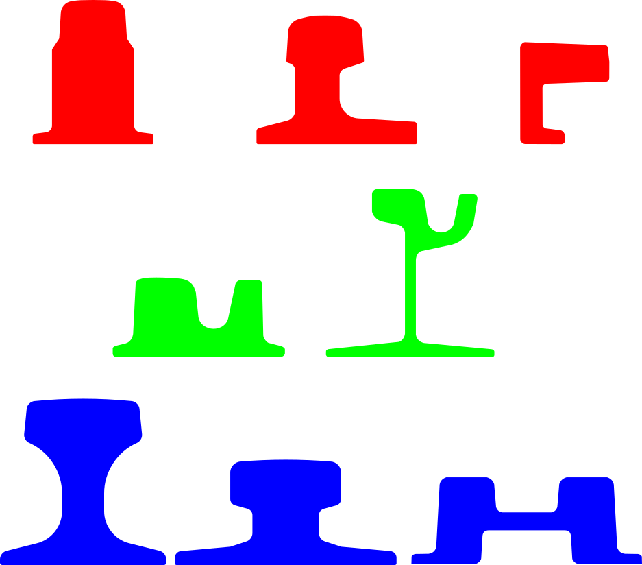 Rails profiles - png version